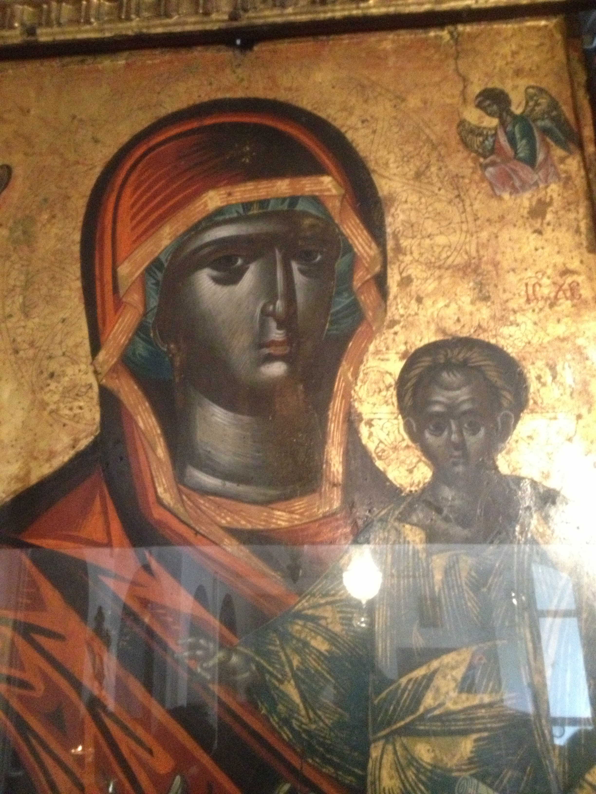 This photo was taken using an iPhone 4S camera (unfortunately, I had run out of film at the time) in the narthex of the church located within the grounds of the Halki Theological Seminary. Photo: Artwork